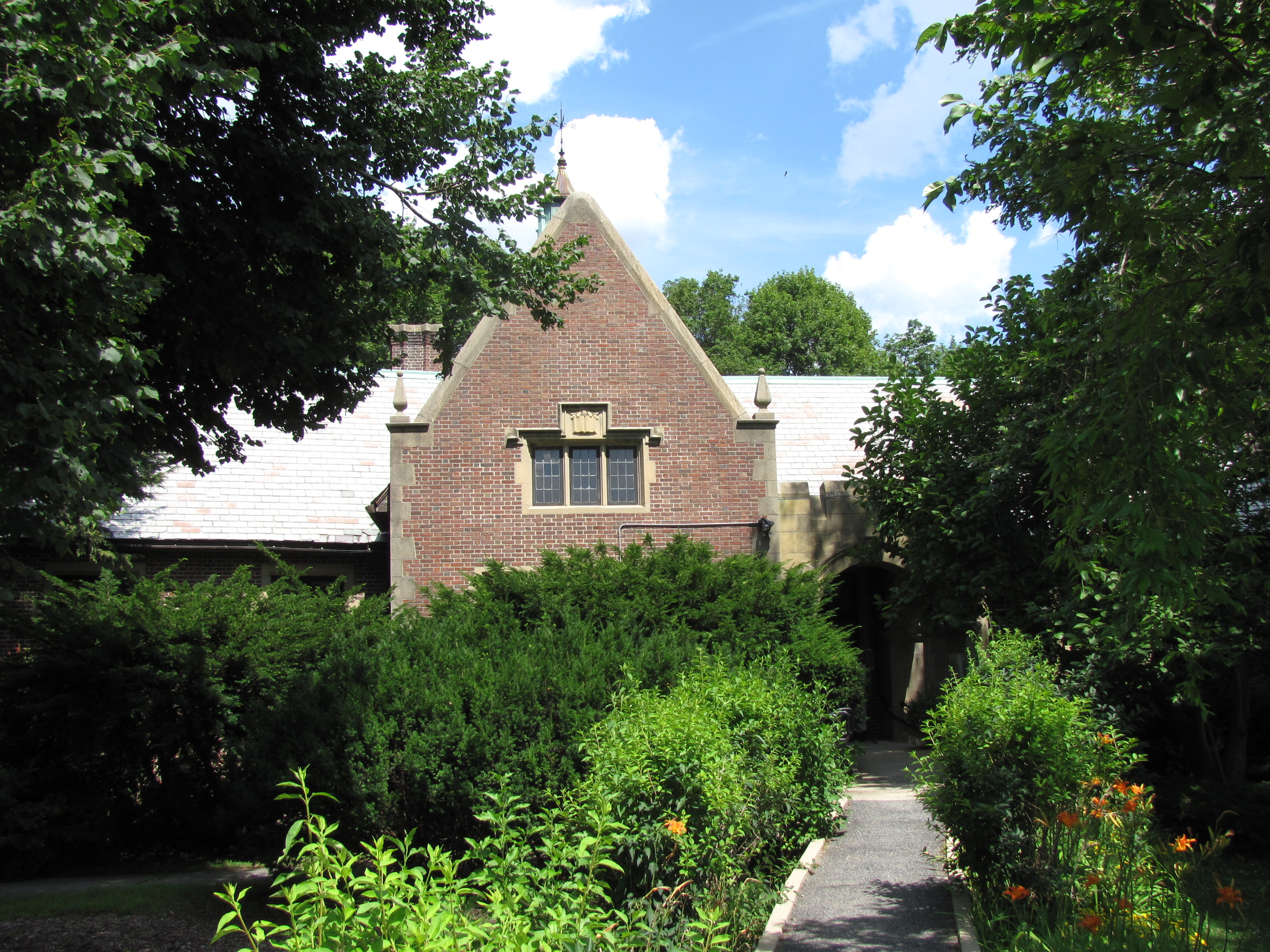 Waban Branch Library, Waban Massachusetts